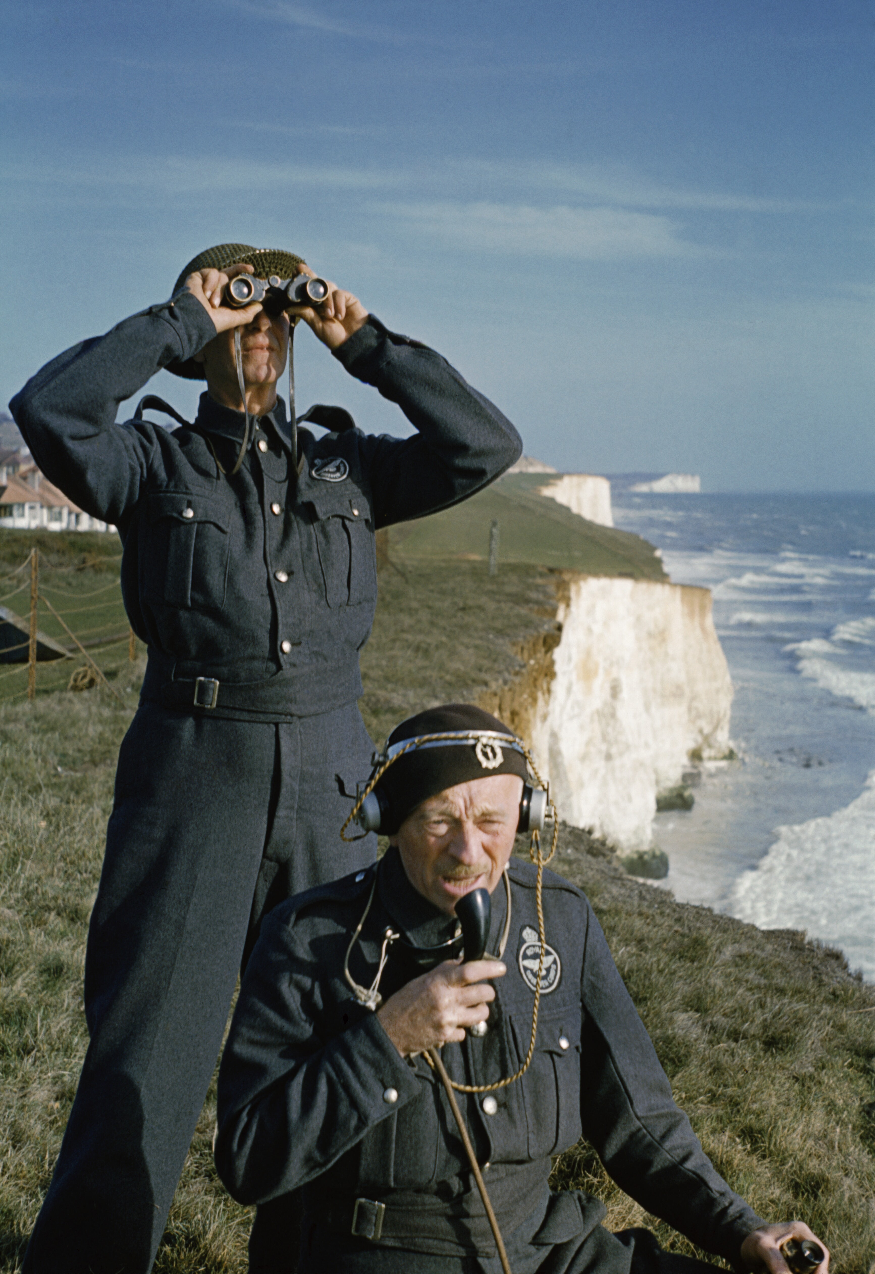 Two men of the Royal Observer Corps on a cliff top near Dover, 1943. Two men of the Royal Observer Corps on a cliff top.